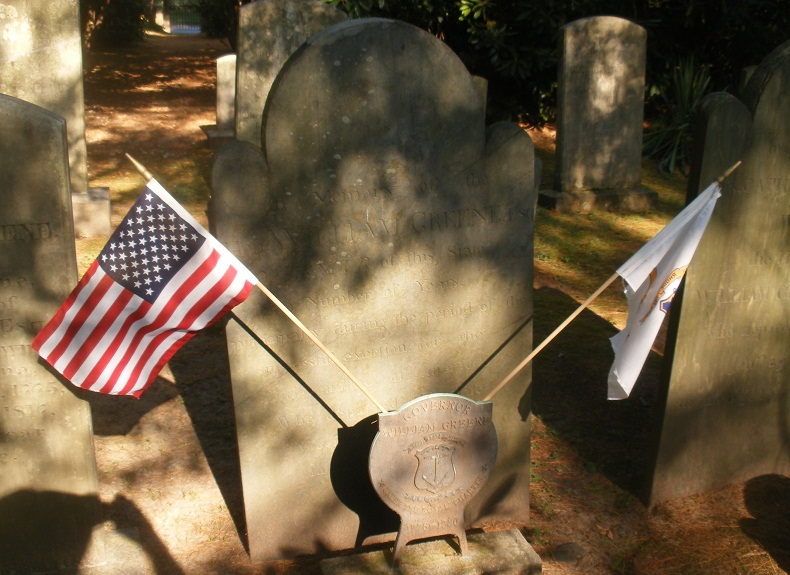 Photograph of the gravestone for Governor William Greene, second governor of the state of Rhode Island and Providence Plantations.